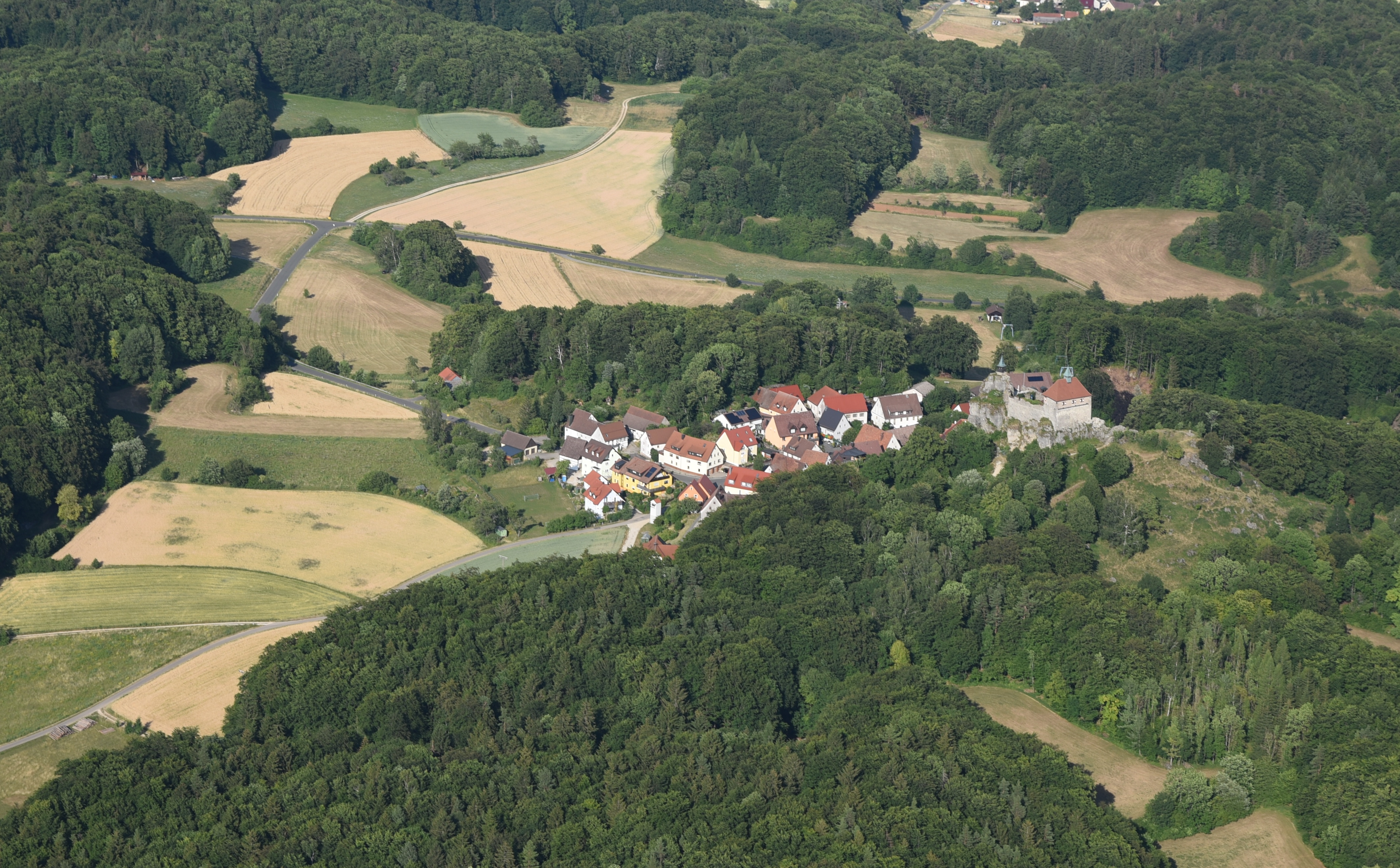 Burg Hohenstein